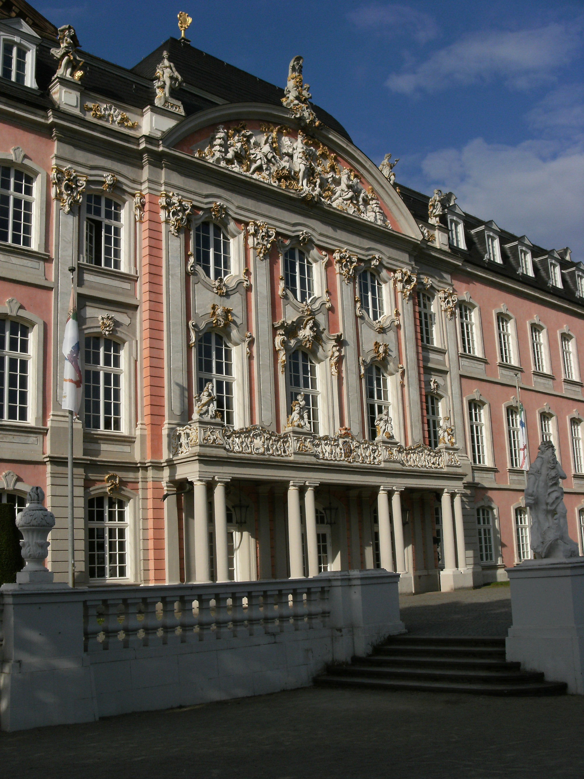 Kurfürstliches Palais Trier.